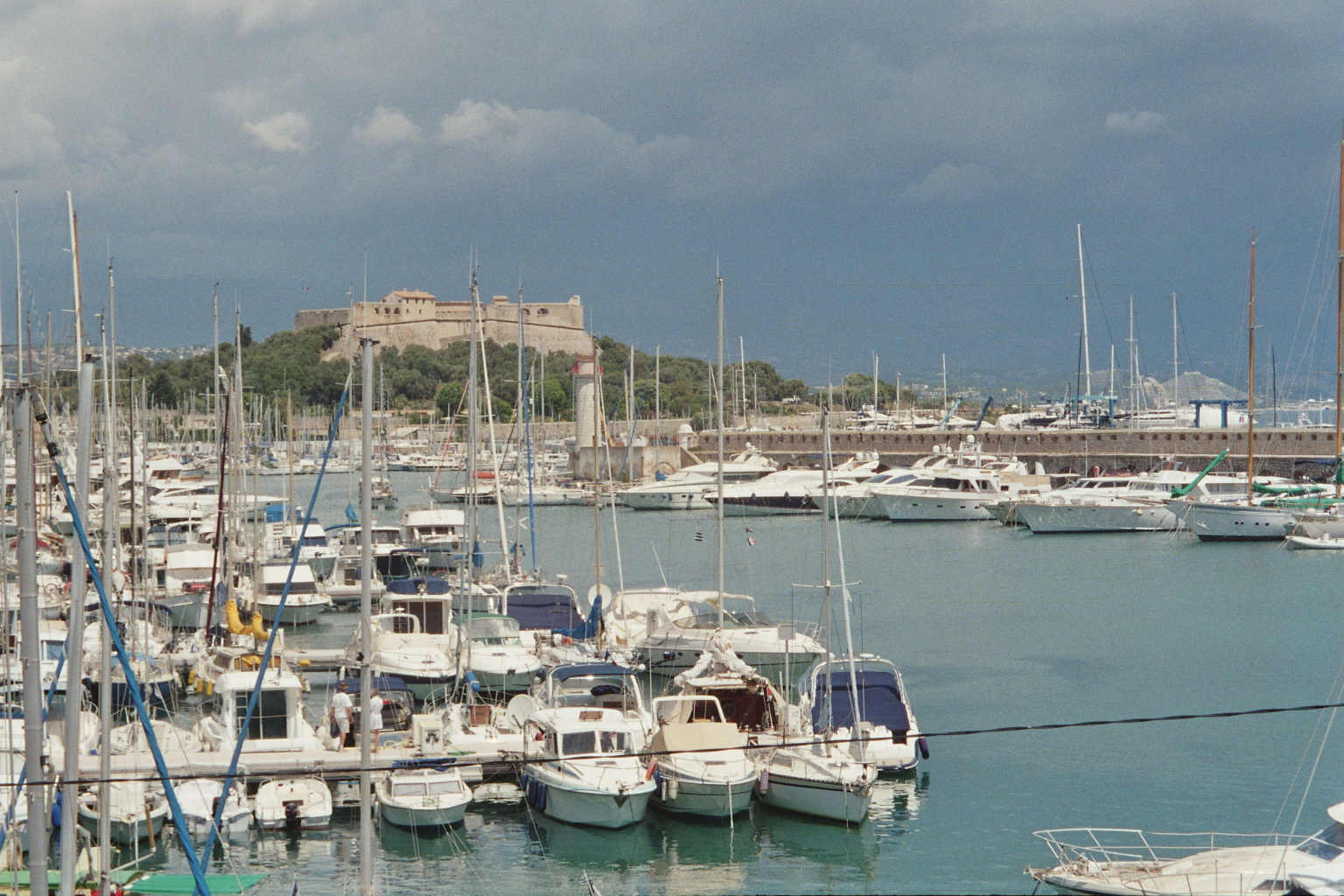 Port Vauban in Antibes with Fort Carré